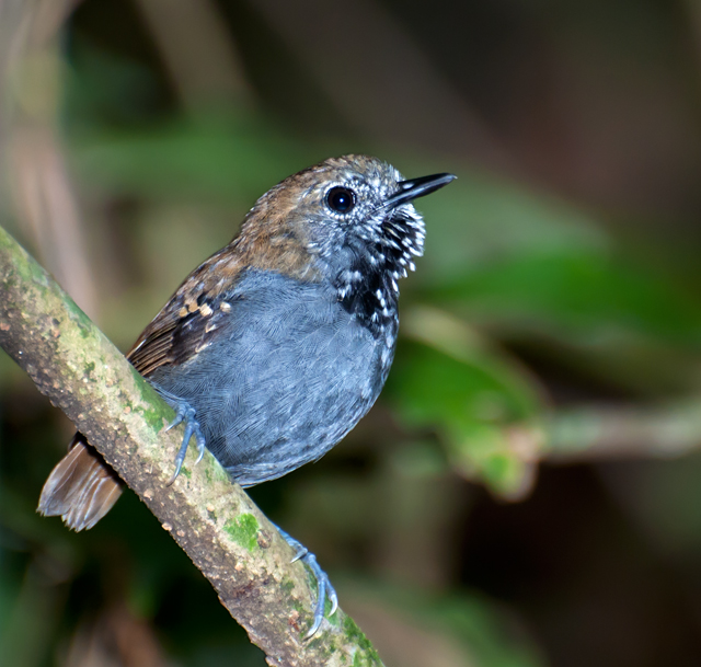 A Star-throated Antwren in Parque Estadual da Cantareira, São Paulo, Brazil.